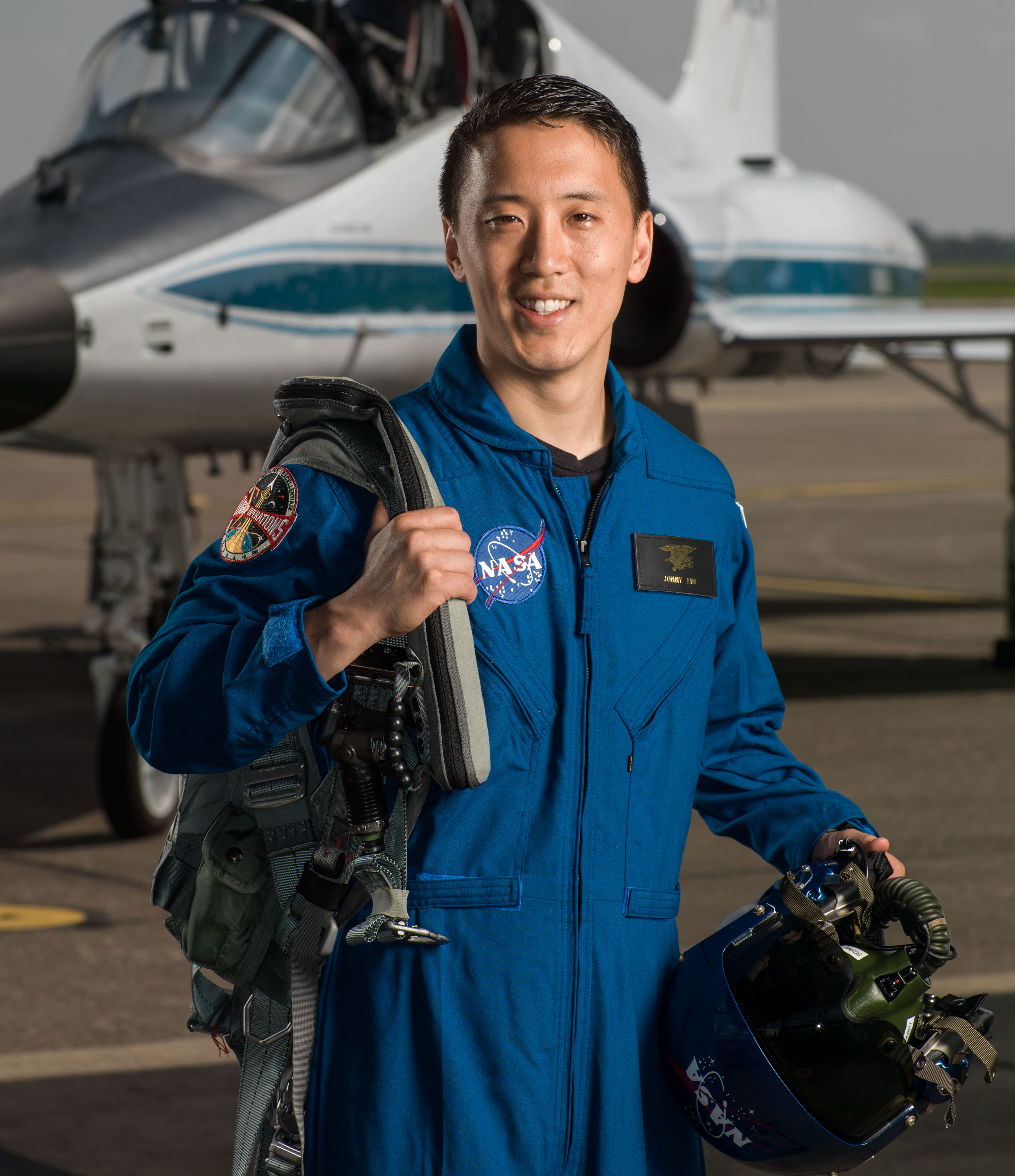 2017 NASA Astronaut Candidate - Jonny Kim. Photo Date: June 6, 2017. Location: Ellington Field - Hangar 276, Tarmac.